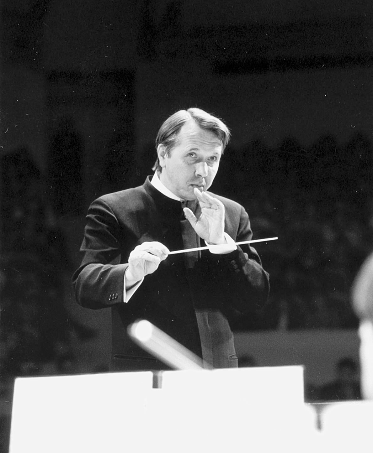 Russian pianist, conductor and composer Mikhail Pletnev.